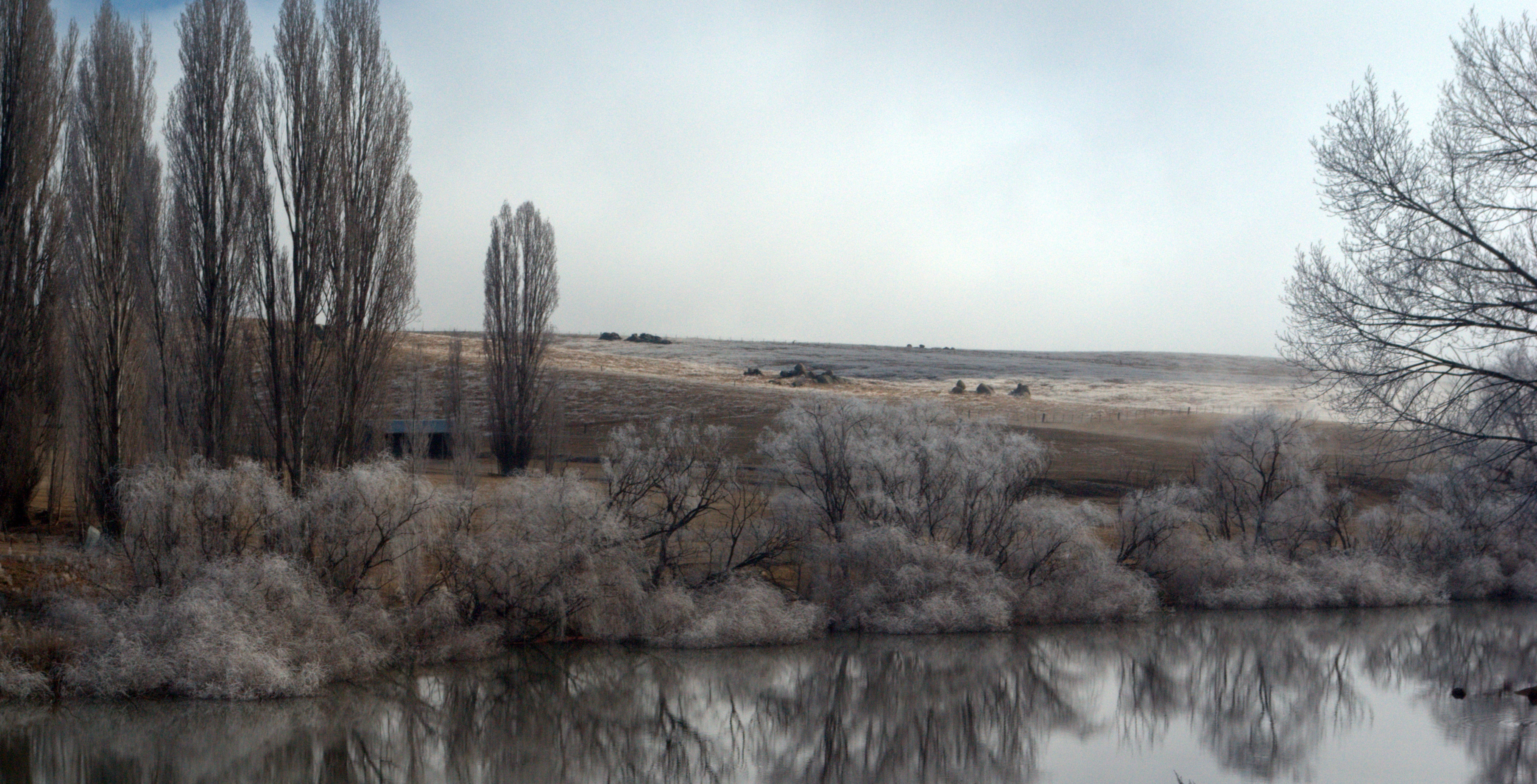 View of the Snowy River, seen from Snowy River Way bridge. In Dalgety, NSW, Australia.